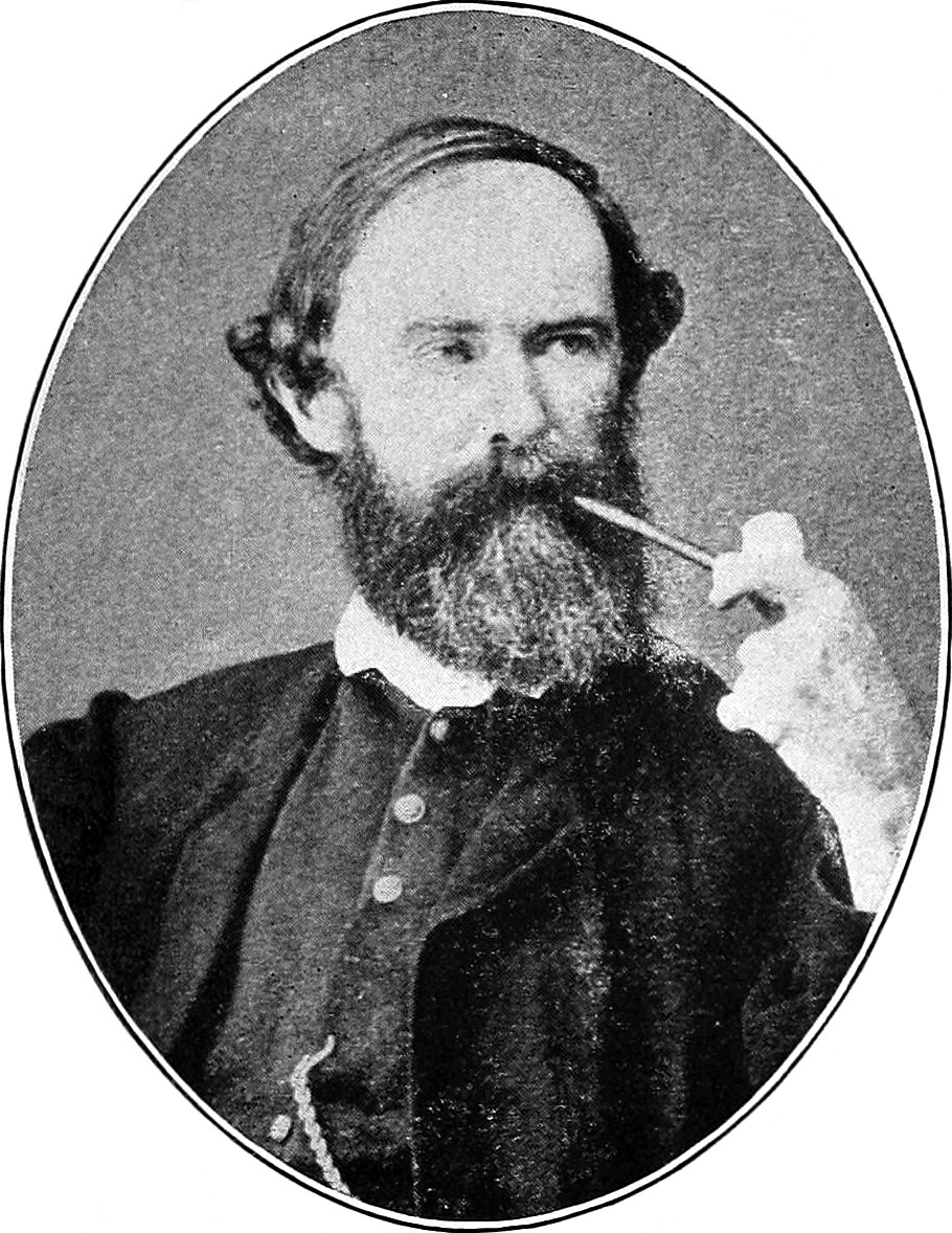 Photographic portrait of J. Heron Foster, the founder of the Pittsburgh Dispatch newspaper